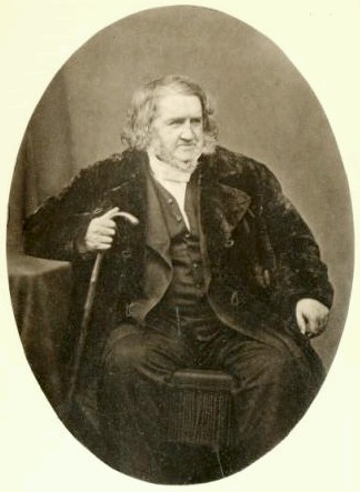 Picture of the Scottish physician Sir. James Young Simpson